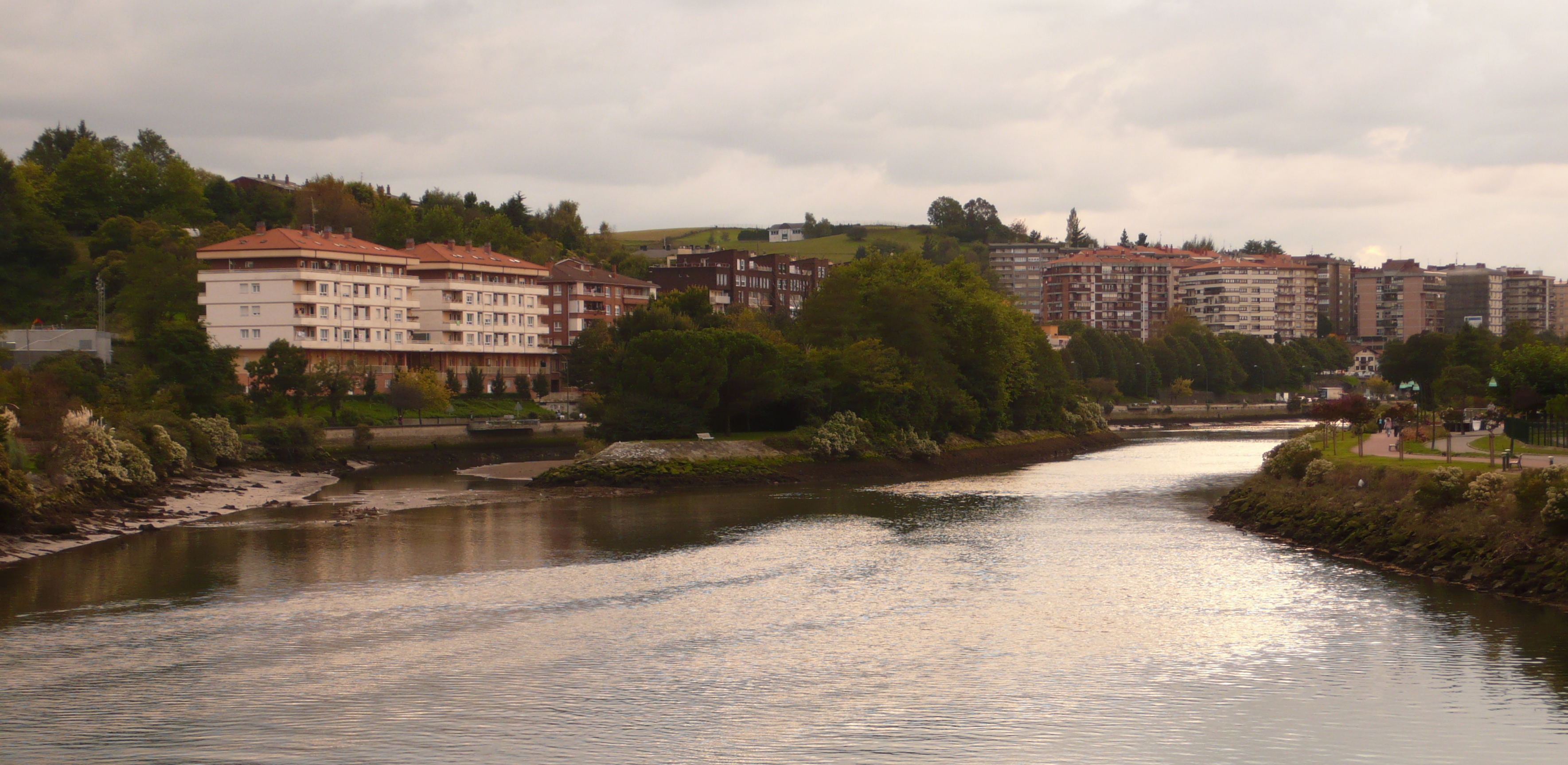 Pheasant Island (Spain/France) from the International Bridge over the Bidasoa River